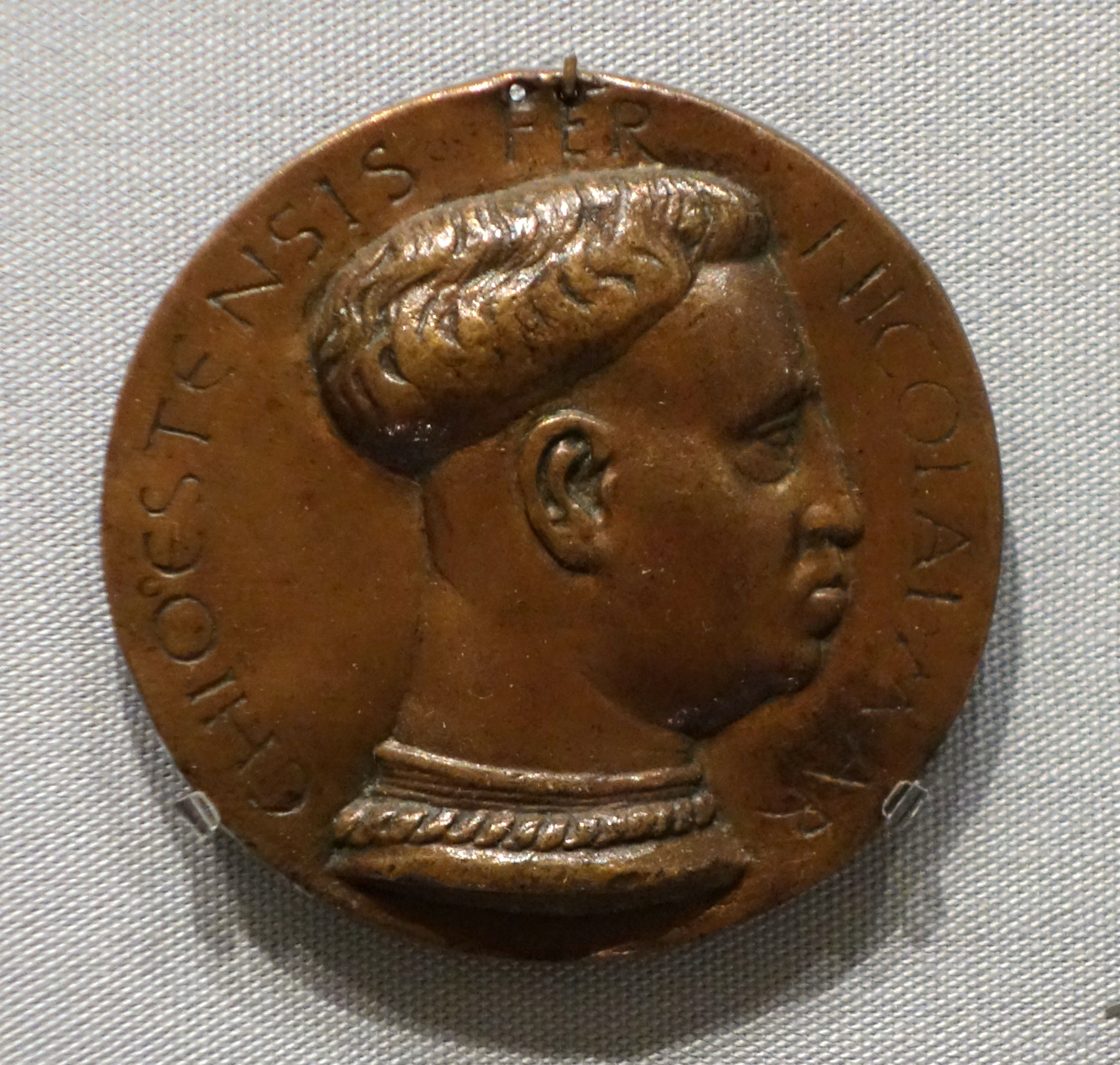 Exhibit in the Chazen Museum of Art, University of Wisconsin-Madison, Madison, Wisconsin, USA. This artwork is old enough so that it is in the public domain.